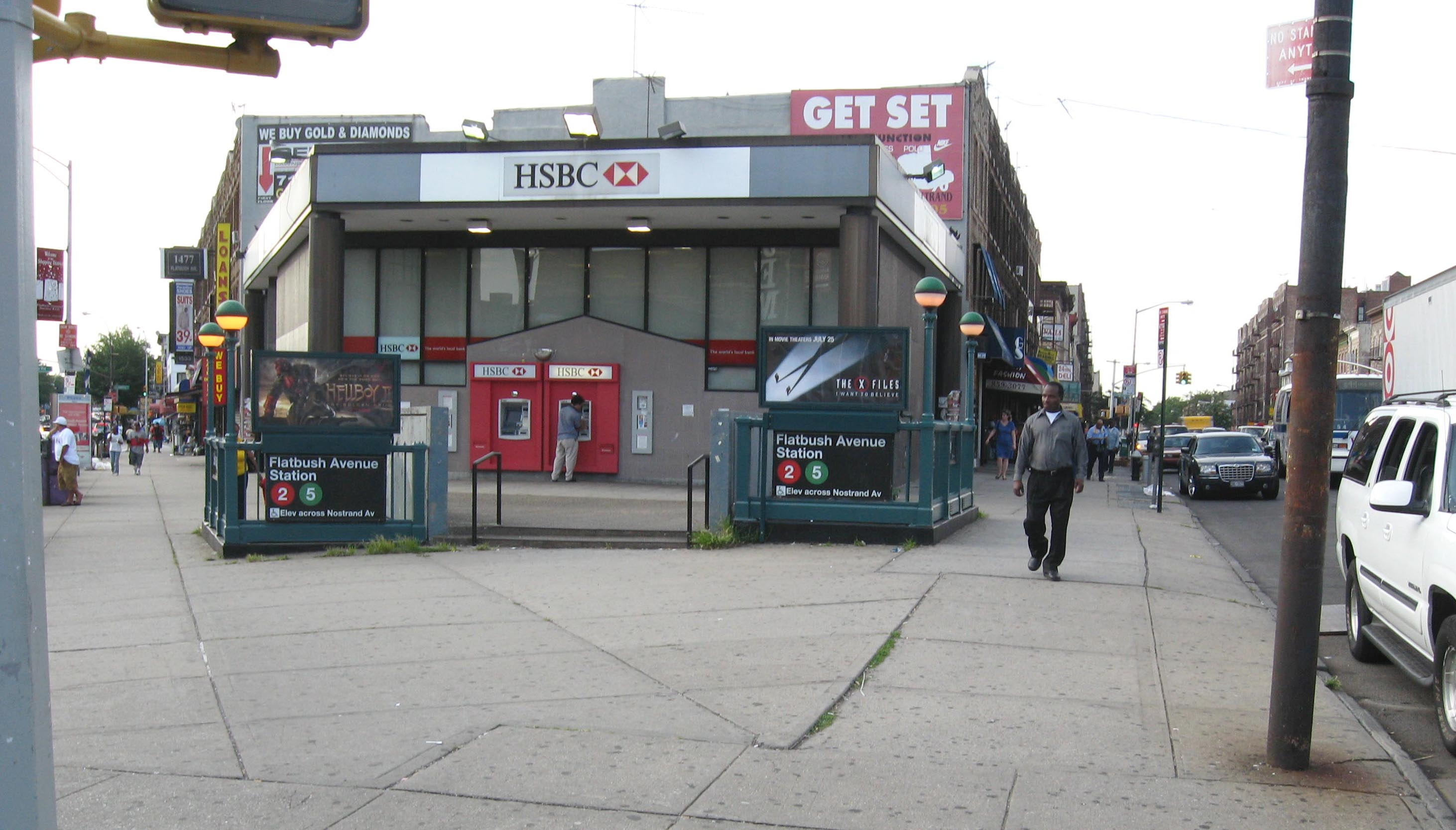 Looking north at entrance stairs of Brooklyn College–Flatbush Avenue (IRT Nostrand Avenue Line) on a cloudy afternoon